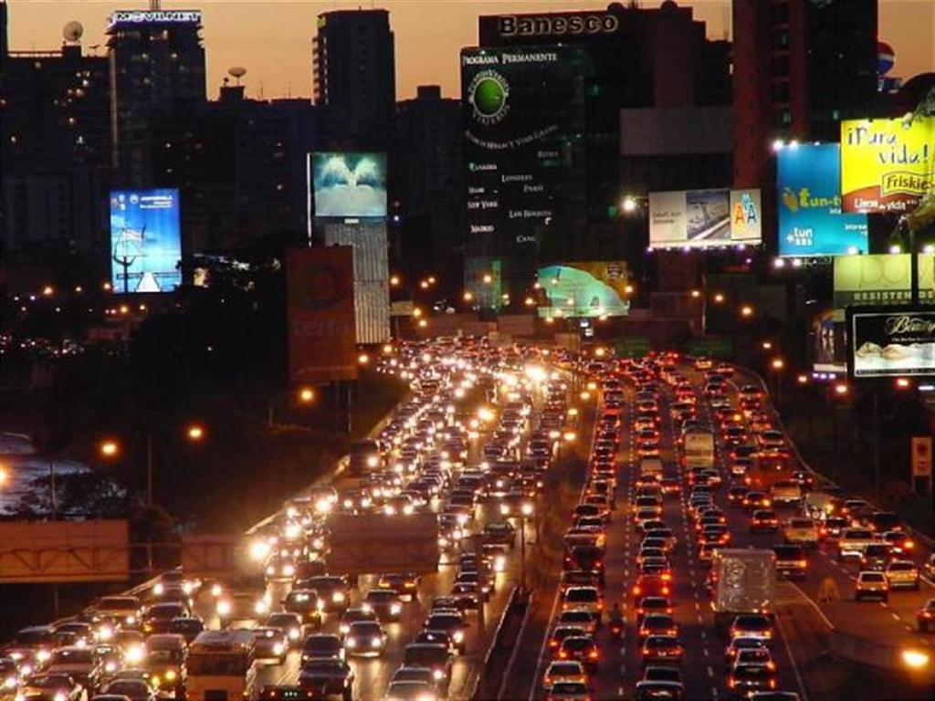 Francisco Fajardo Highway in Caracas.